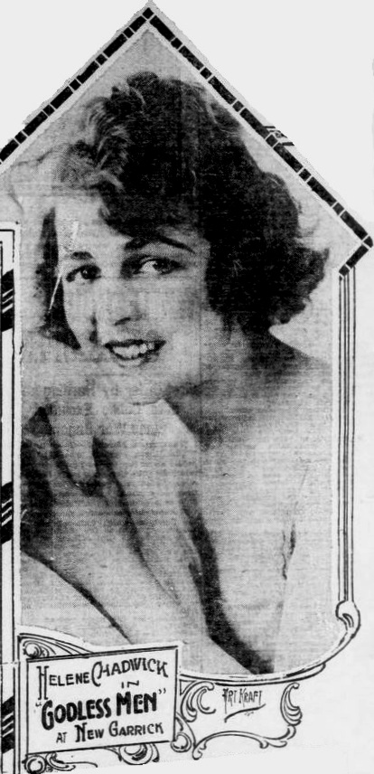 Newspaper advertisement for the American film Godless Men (1920) with Helene Chadwick, overlapping film ads removed, on page 10 of the March 5, 1920 Duluth Herald.